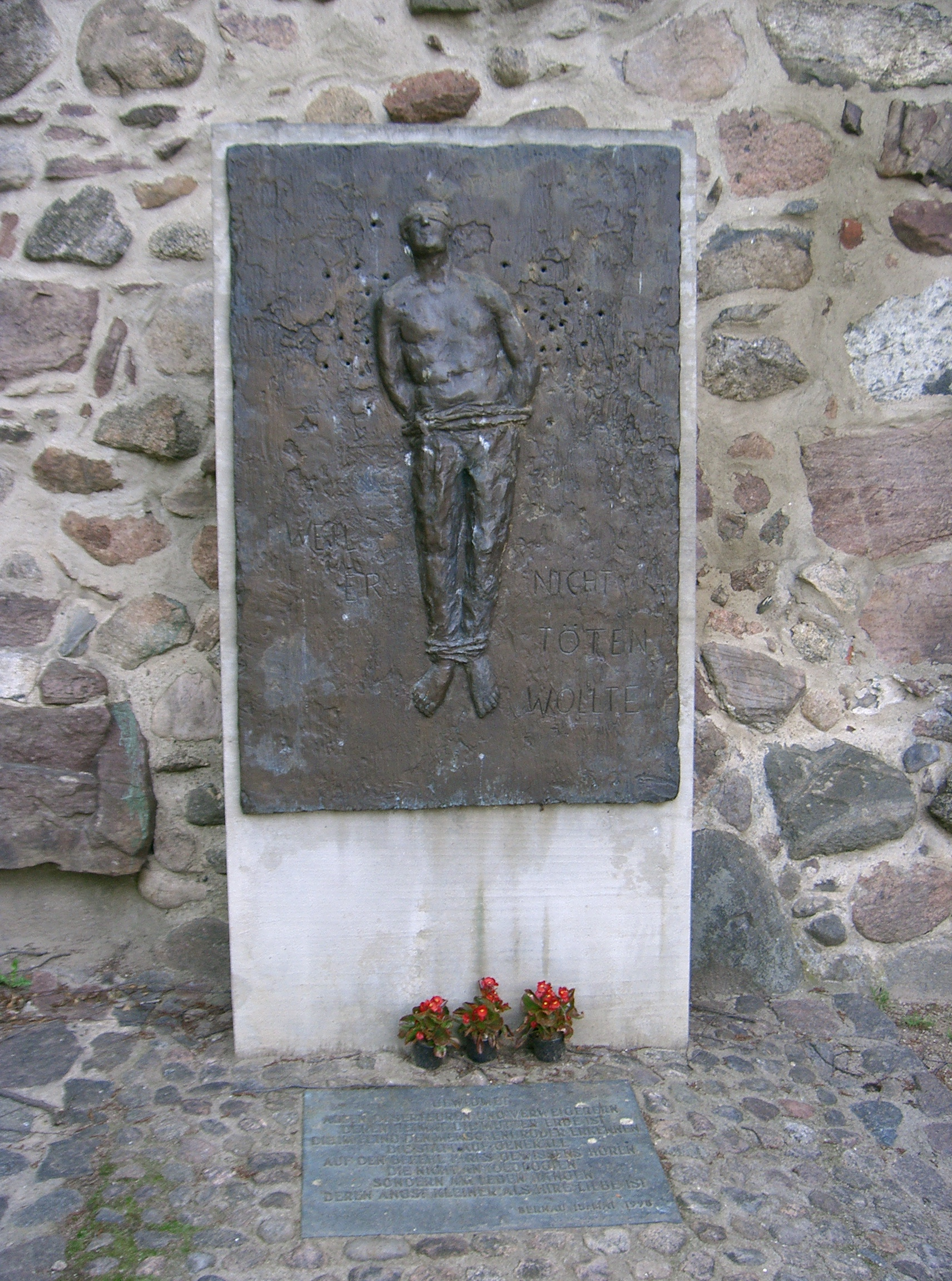 Deserter Memorial in Bernau bei Berlin.